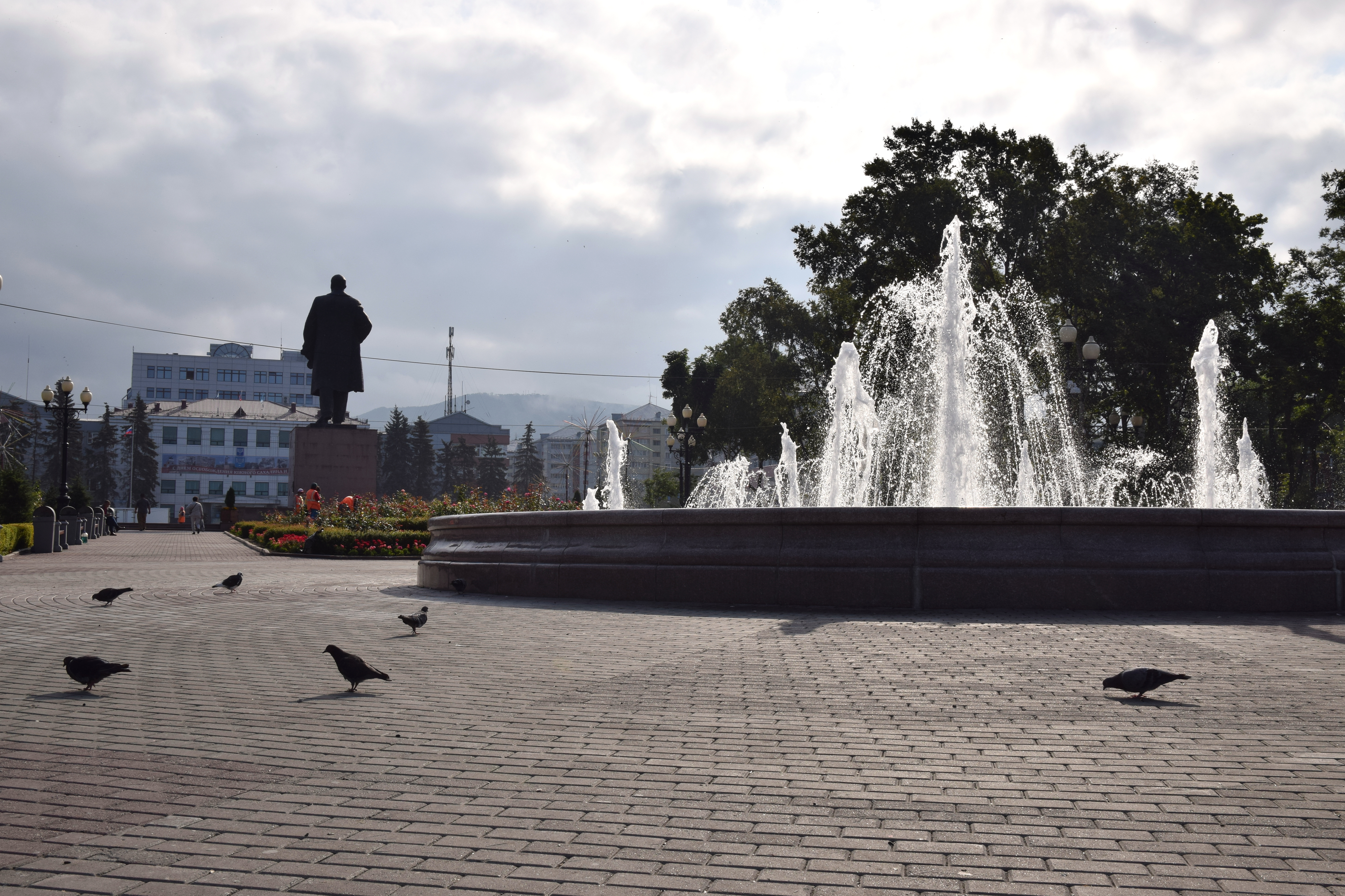 I arrived in Yuzhno-Sakhalinsk one or two days later I have planned, so I decided to wake up at 7am and compensate the difference. Площадь Ленина